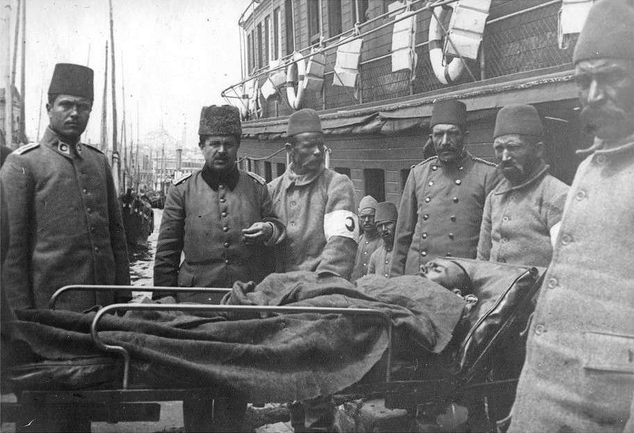 Transporting Ottoman wounded at Sirkedji